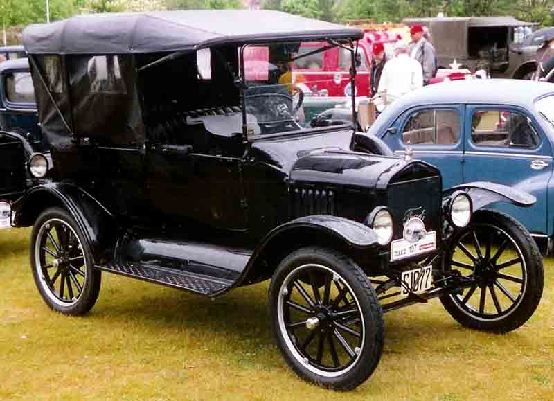 Ford Model T Touring 1920